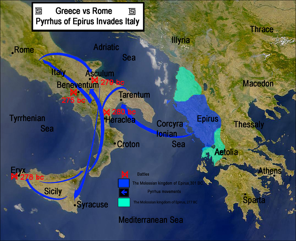 Map of "Pyrrhus invades Italy"